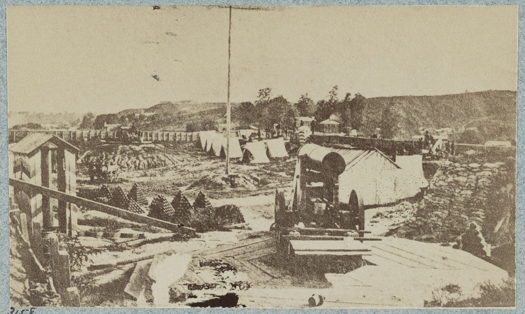 Interior of Fort Curtis, Helena, Ark. during the American Civil War